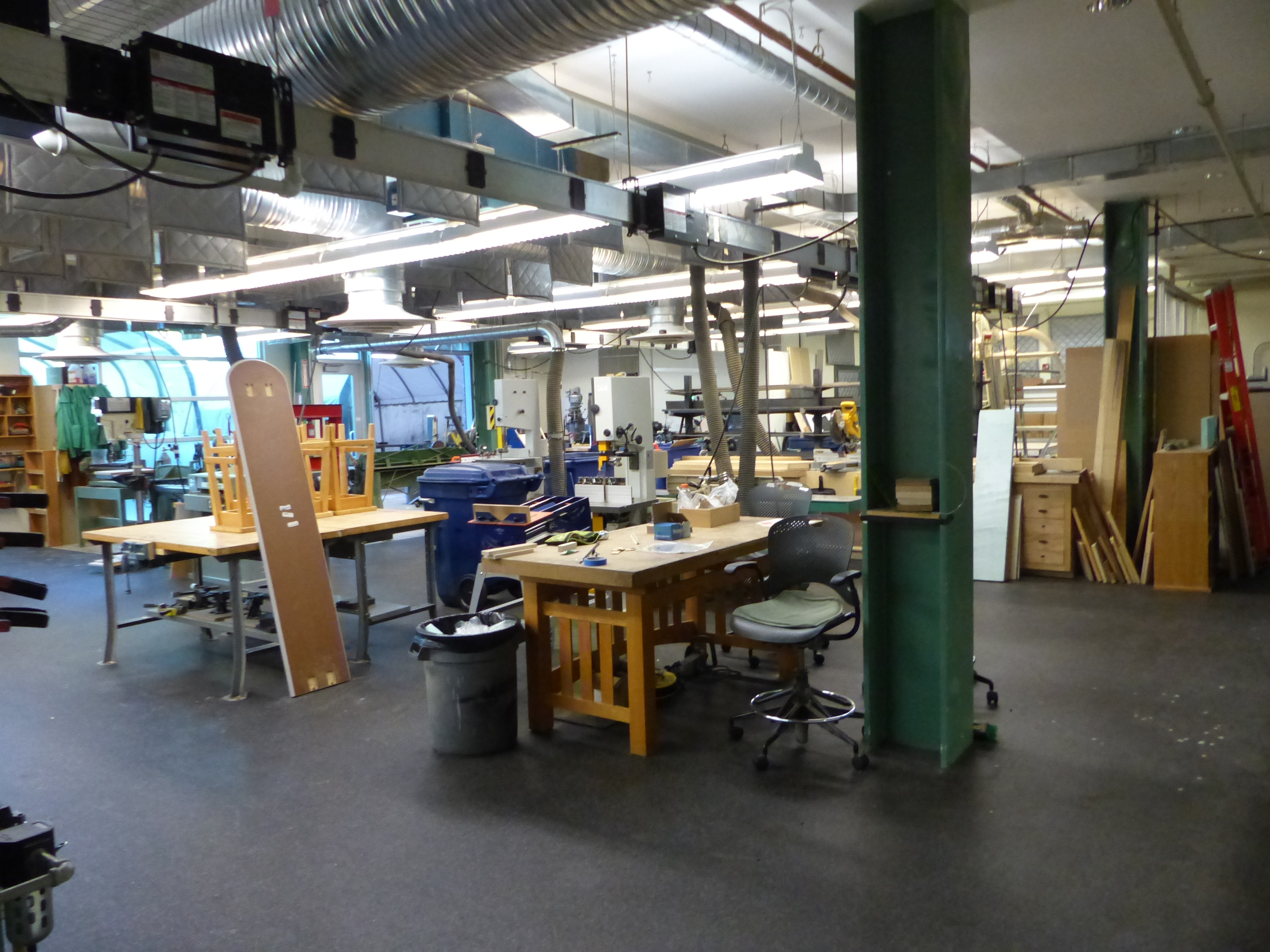 architecture